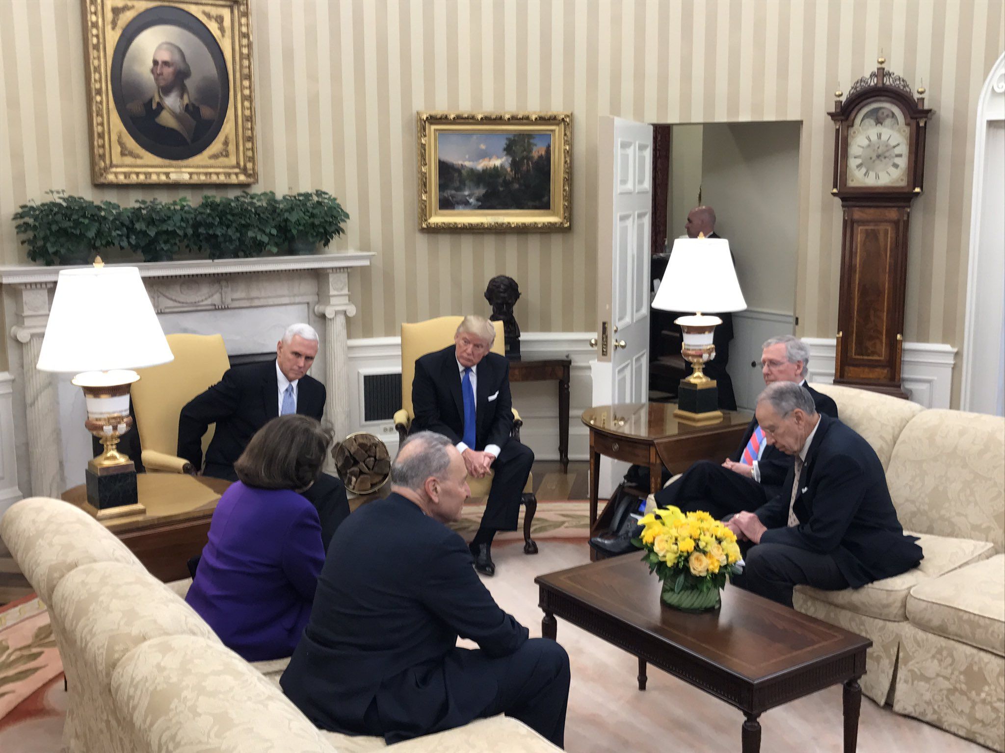 Donald Trump and Mike Pence meeting with members of the Senate leadership in the Oval Office